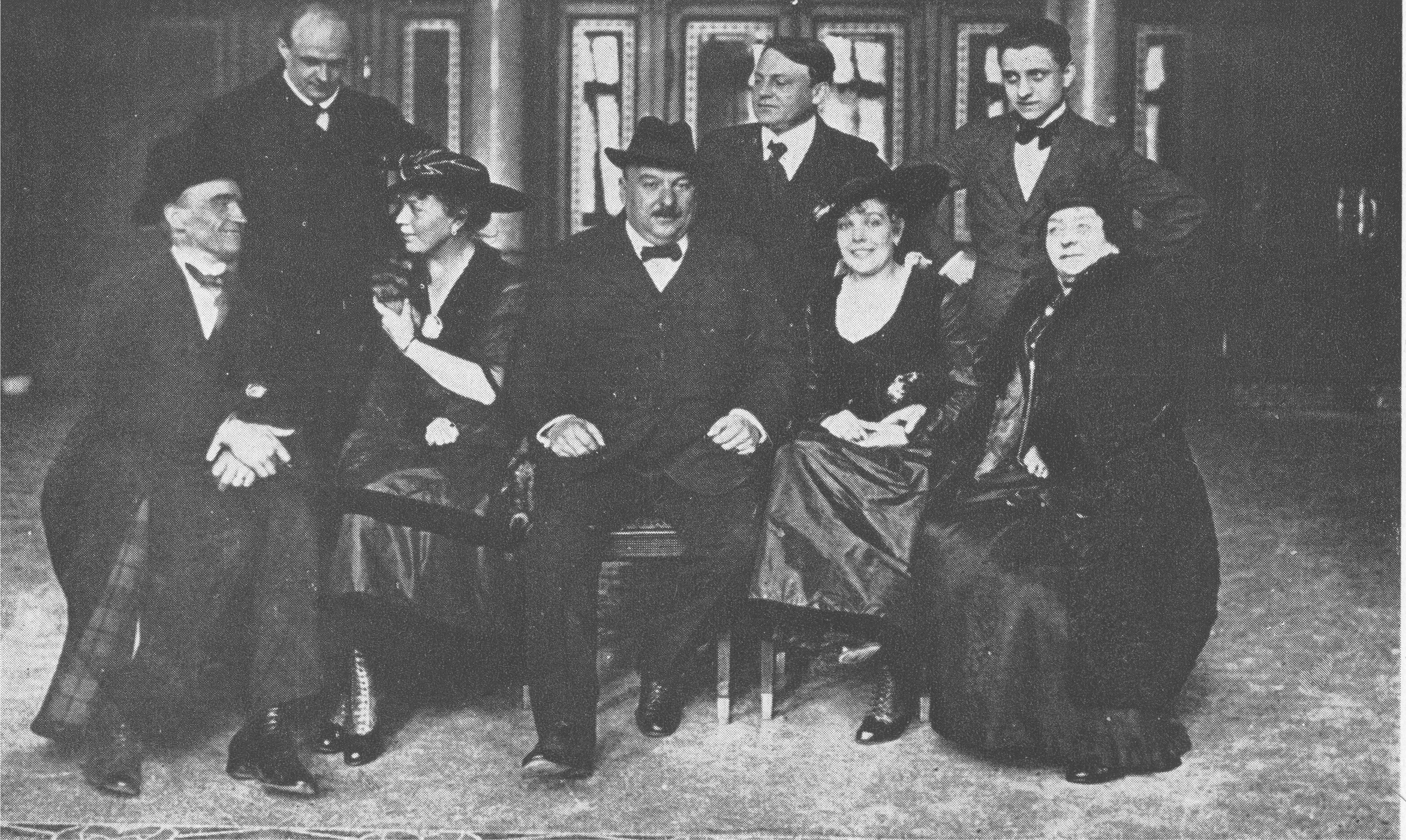 Oskar Nedbal with the cast of Vinohrady Musical Theatre (Prague) 1916 production of his operetta Vinobraní / Die Winzerbraut. From the left: Karel Hašler (translator, director, Milan), Karel Nedbal (conductor), Božena Durasová (Julja), Oskar Nedbal, Karel Faltys (Franjo), Mimi Vilímová (Lisa), R. Tůma (Bogdan), Anna Zelenková (Mizzi Müller)